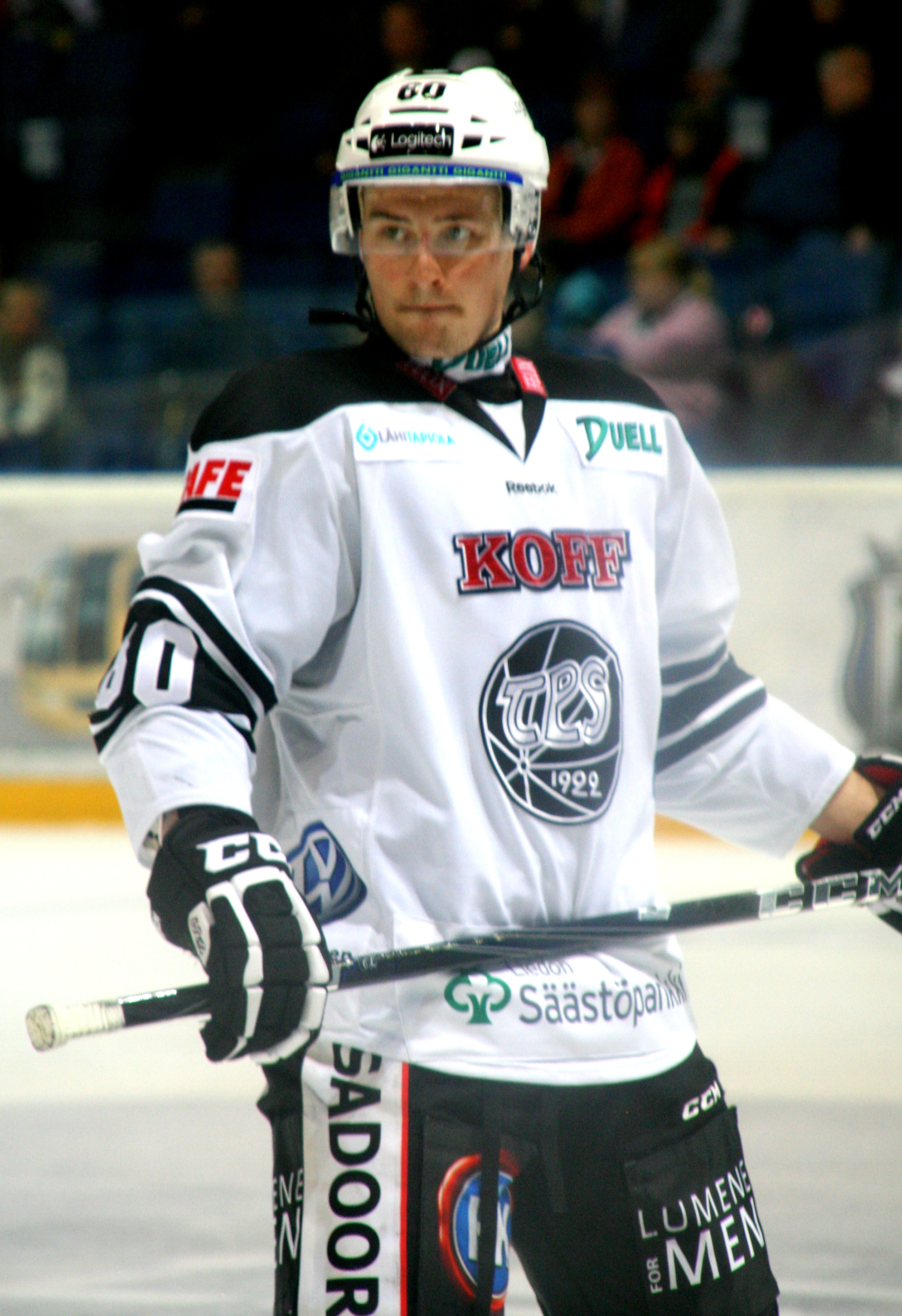 Ice Hockey Team Turun Palloseura's Attacker #60 Tero Koskiranta